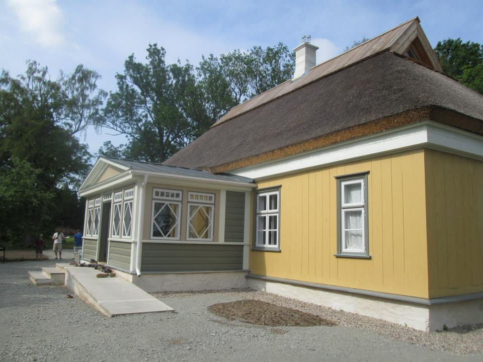 Mõisahoone on ehitatud 1818. aastal, mis raiutud vundamendi kivisse. Praegu kasutuses elamuna (elanike sõnul elavad nad hoones 1940. aastatest).